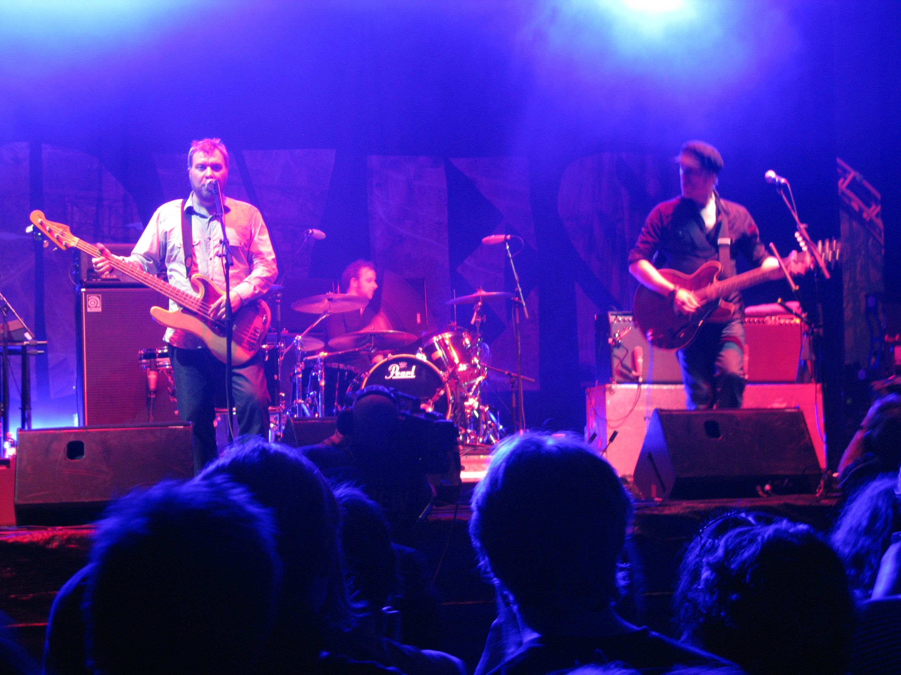 Doves (Splendour in the Grass)